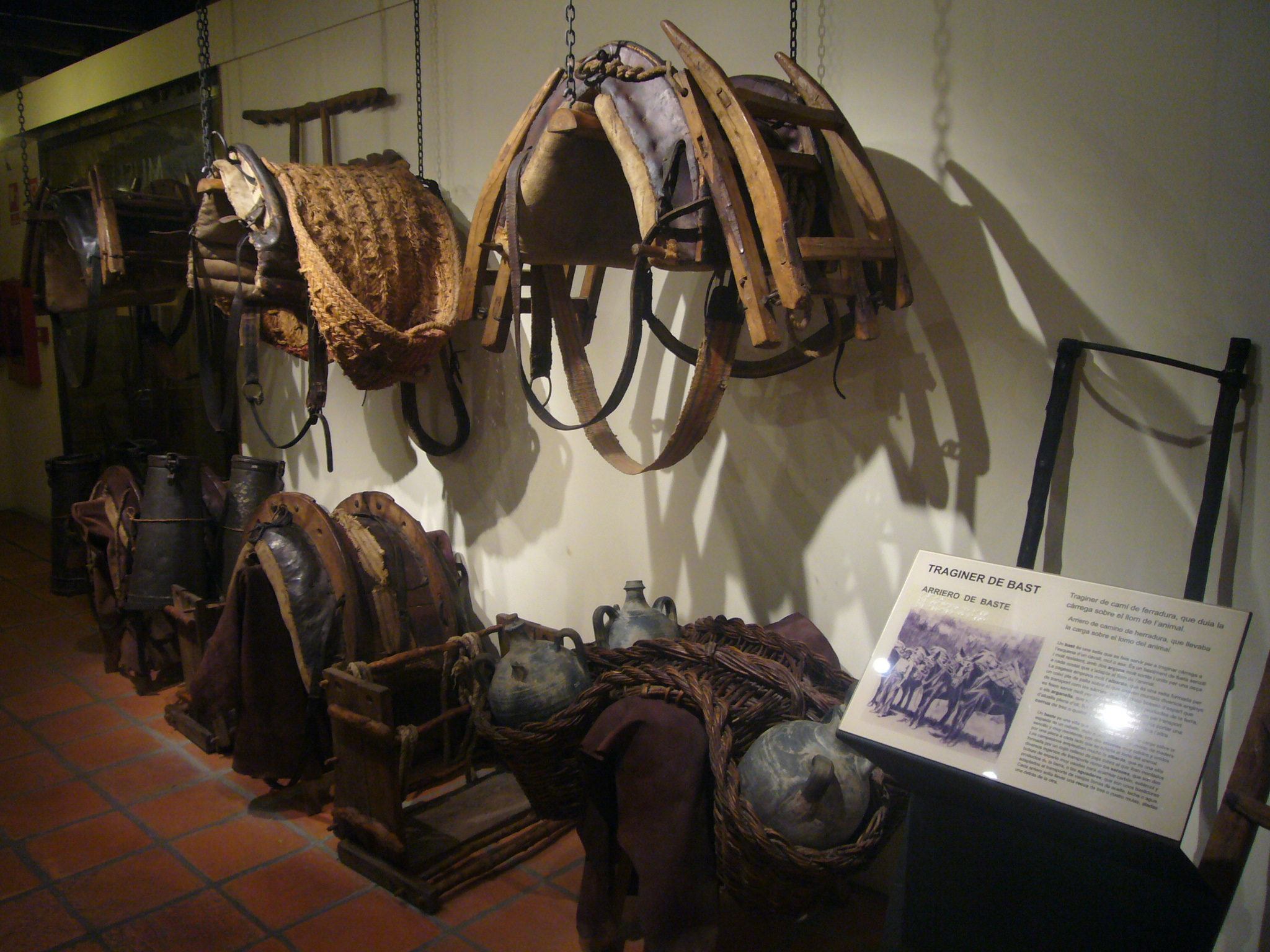 Muleteer's Museum ("Museu del Traginer") located in Igualada, Catalonia.